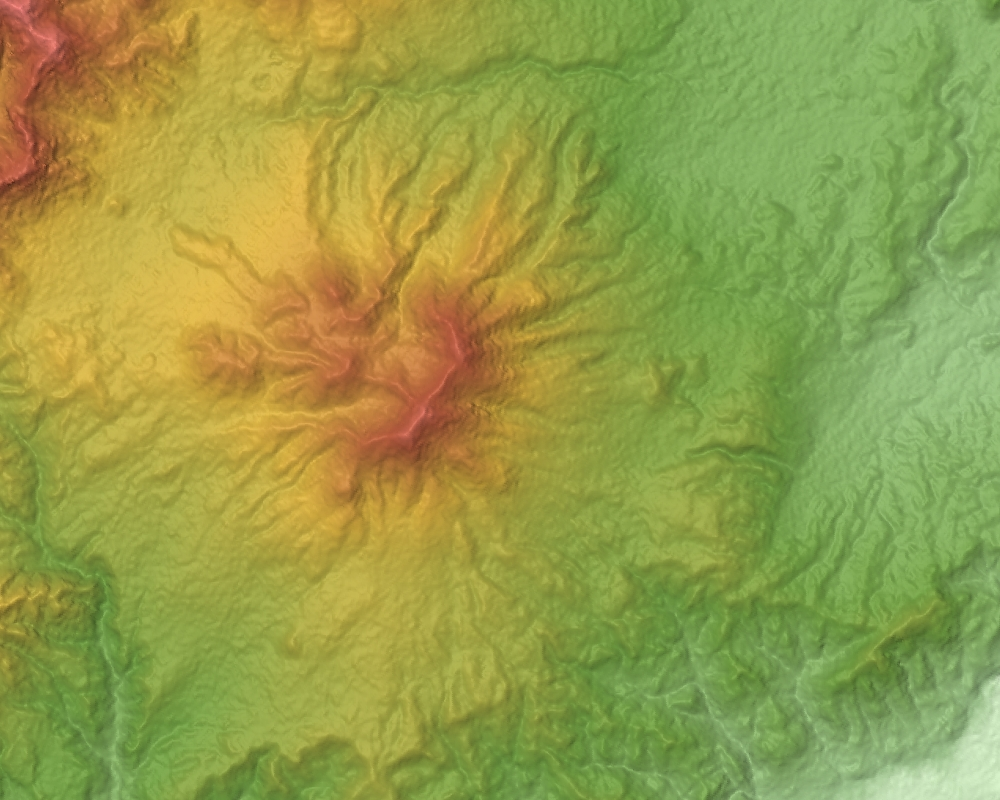 Mount Iizuna (Iizuna-yama) is a volcano in Nagano Prefecture, Honshu, Japan.